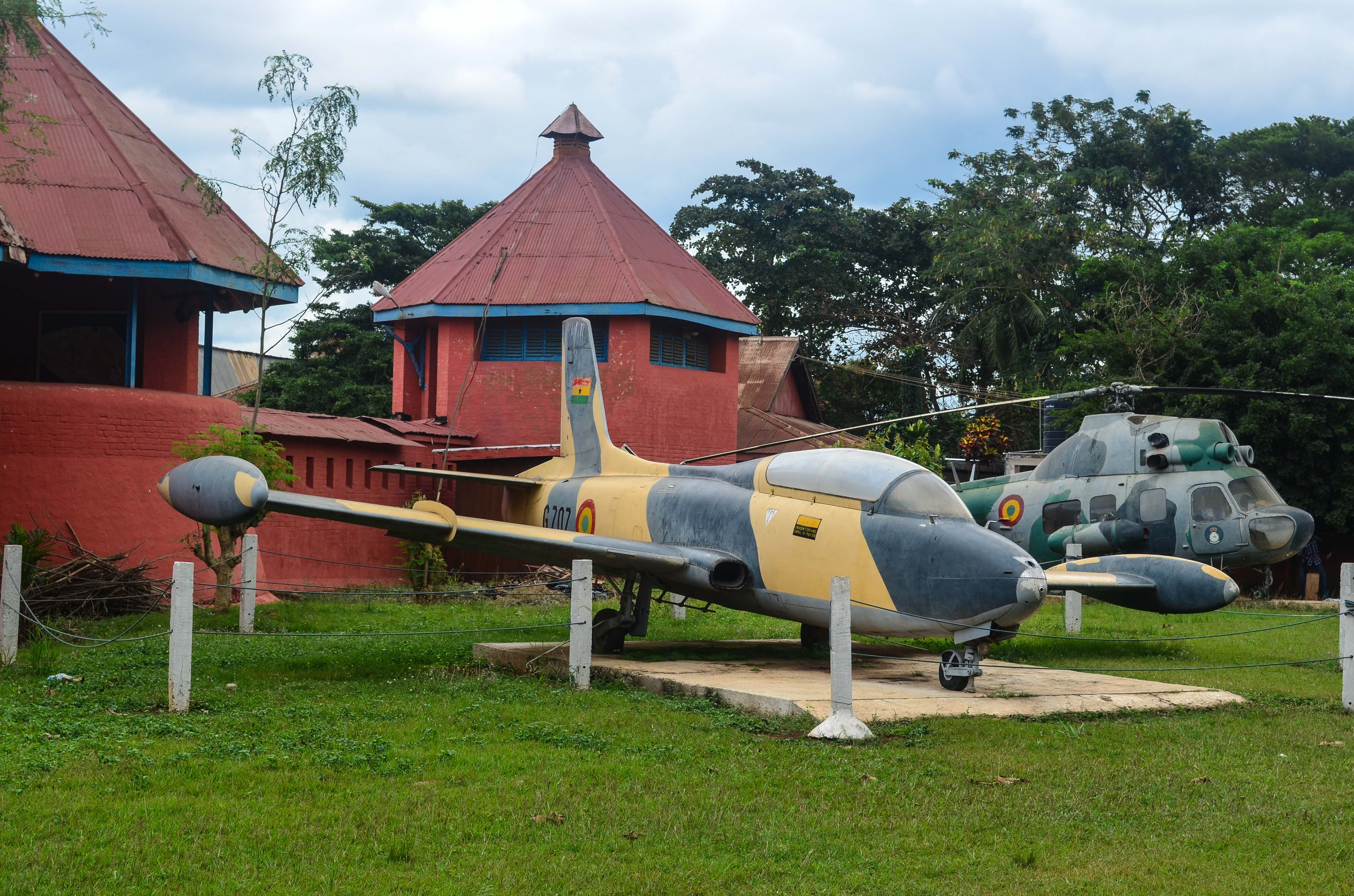 Ghana Air Force Historic Attack Aircraft and Attack Helicopter at the Ghana Armed Forces (GAF) Museum in Kumasi, Ashanti Region, Ghana.